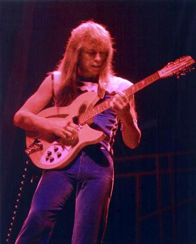 Steve Howe, lead guitarist for Yes